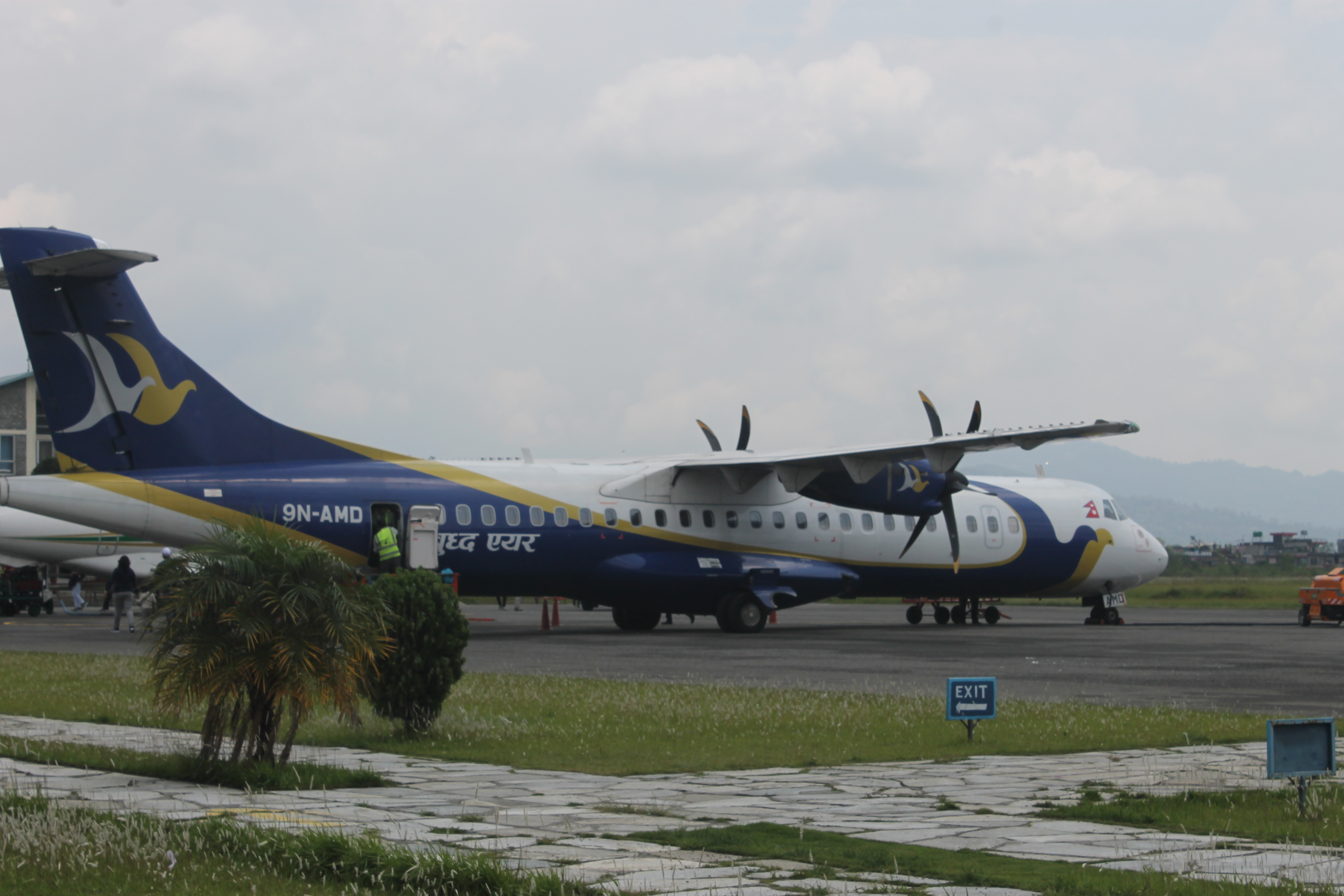 ATR 72-500 of Buddha Air with registration 9N-AMD